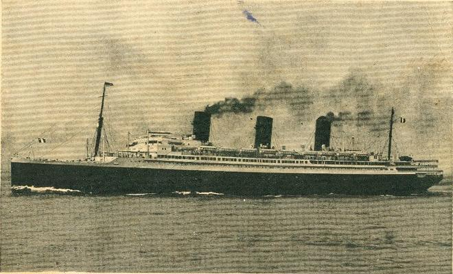 SS Ile de France Source: This postcard photo is stated to be in the public domain; the Maritime Digital Archive Encyclopedia there is stated to use the GNU Free Documentation License.